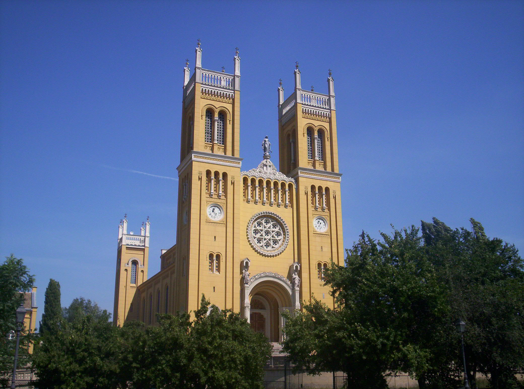 Catholic Temple in Fót